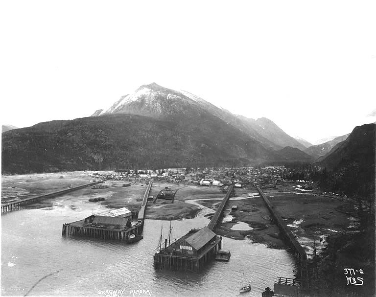 Caption on image: "Skagway, Alaska" Original photograph by Eric A. Hegg 314B; copied by Webster and Stevens 377.A. Subjects (LCTGM): Piers & wharves--Alaska--Skagway; Cities & towns--Alaska; Mountains--Alaska Subjects (LCSH): Skagway (Alaska)